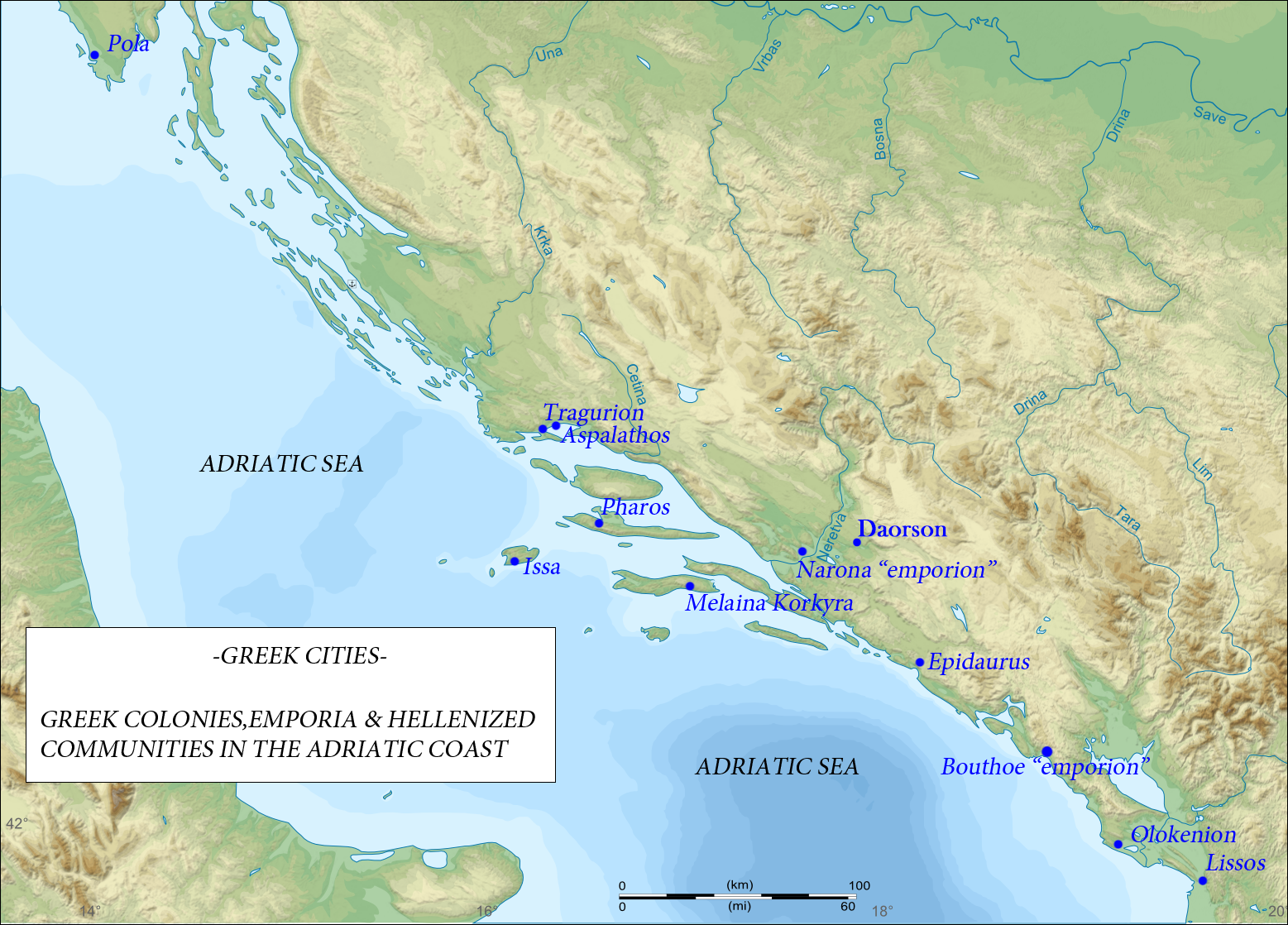 Greek cities in the Adriatic coast(Illyria).Pre Roman conquest Own work data from Dalmatia: research in the Roman province 1970-2001 : papers in honour of J.J by David Davison, Vincent L. Gaffney, J. J. Wilkes, Emilio Marin,ISBN-1841717908,2006 Wilkes, J. J. The Illyrians, 1992,ISBN 0631198075, An Inventory of Archaic and Classical Poleis: An Investigation Conducted by The Copenhagen Polis Centre for the Danish National Research Foundation by Mogens Herman Hansen,2005 Excavations at Salona, Yugoslavia, 1969-1972: conducted for the Department of Classics, Douglass College, Rutg, by Christoph W. Clairmont,1975,ISBN 0815550405 Journal of the History of Collections 2004 16(1):136-137; Blank map from Dinaric_Alps_map-fr.svg